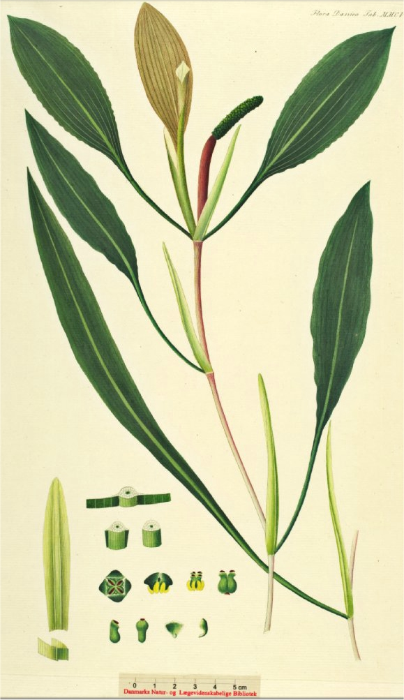 Potamogeton nodosus